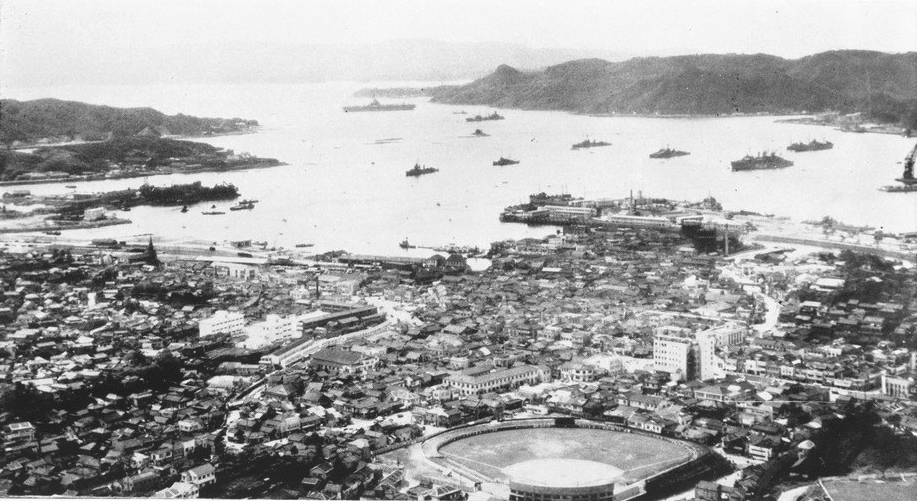 The U.S. Navy destroyer tender USS Piedmont (AD-17) at Sasebo, Japan, in 1957. Piedmont is the large ship on the right, an Essex-class aircraft carrier is visible in the background.